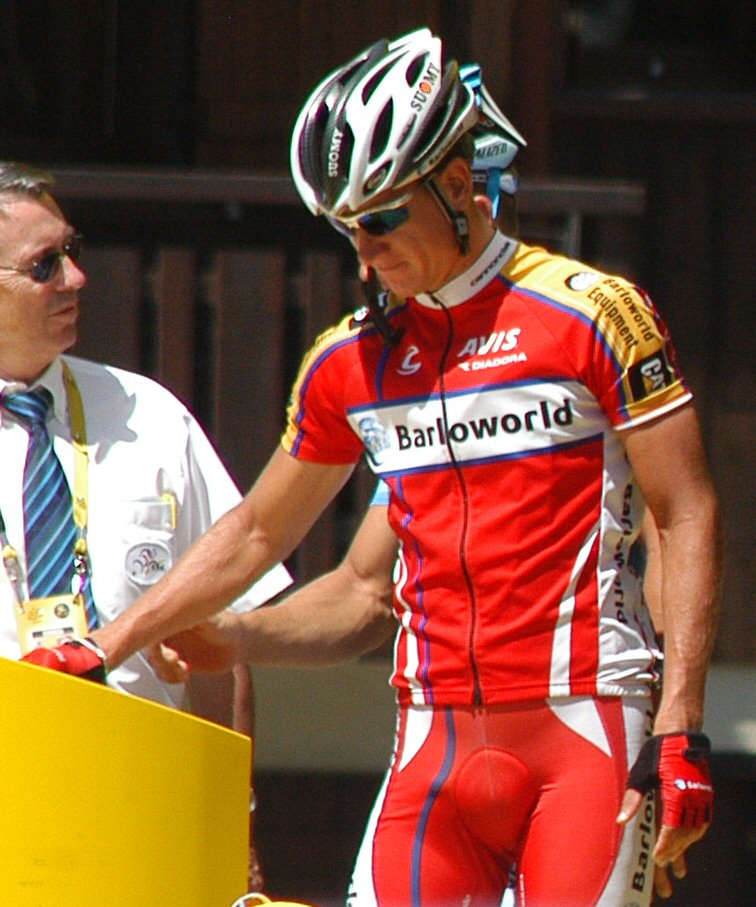 Alexander Efimkin at the start of stage 8 in Le Grand Bornand, Tour de France 2007.